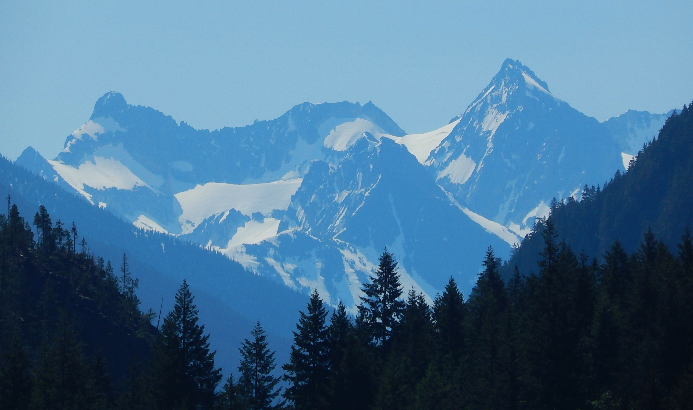 Mount Logan of North Cascades seen using long lens from Diablo Lake.